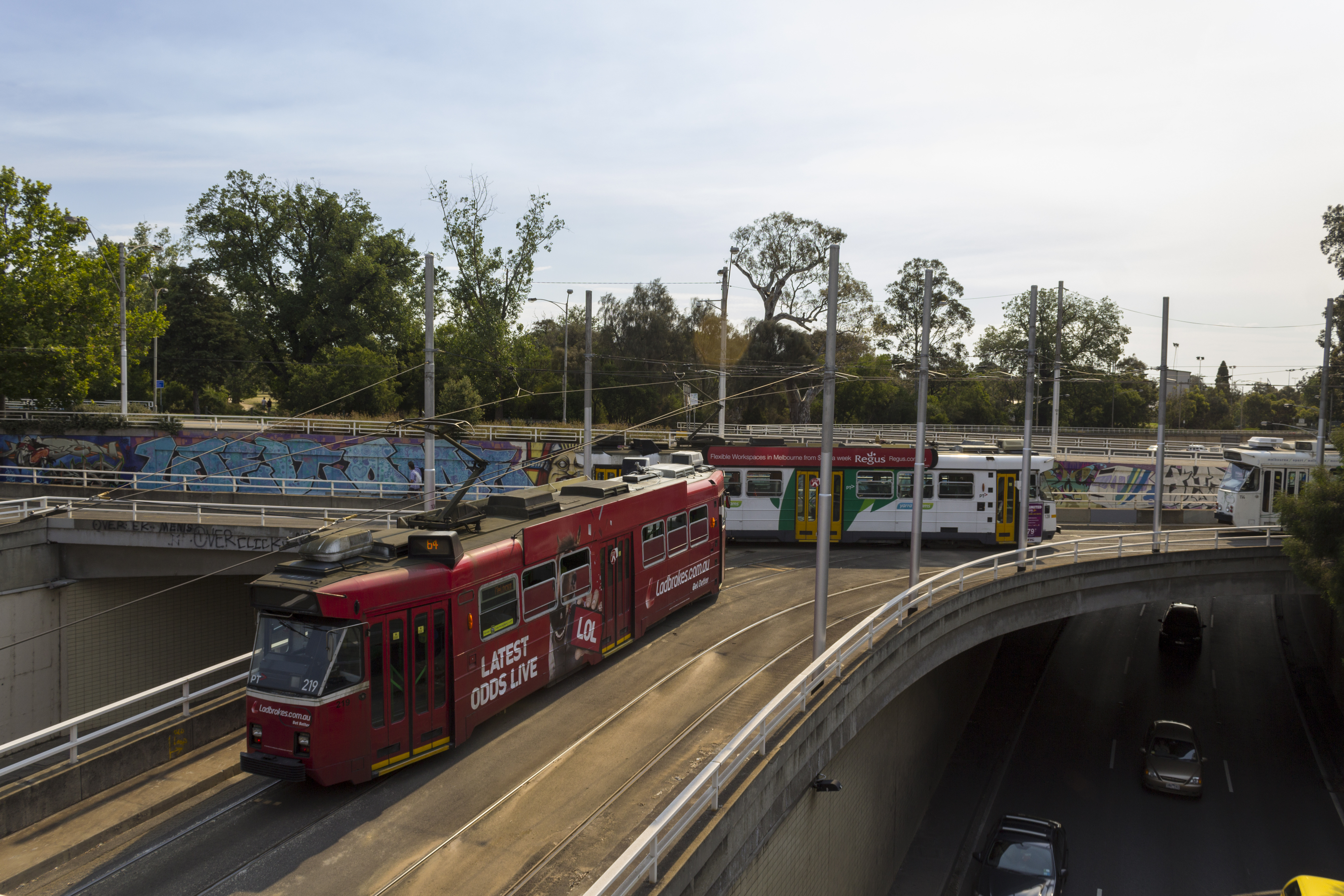 Z3 219, 128, and Z2 114 (Melbourne trams) at St Kilda Junction, 2013.